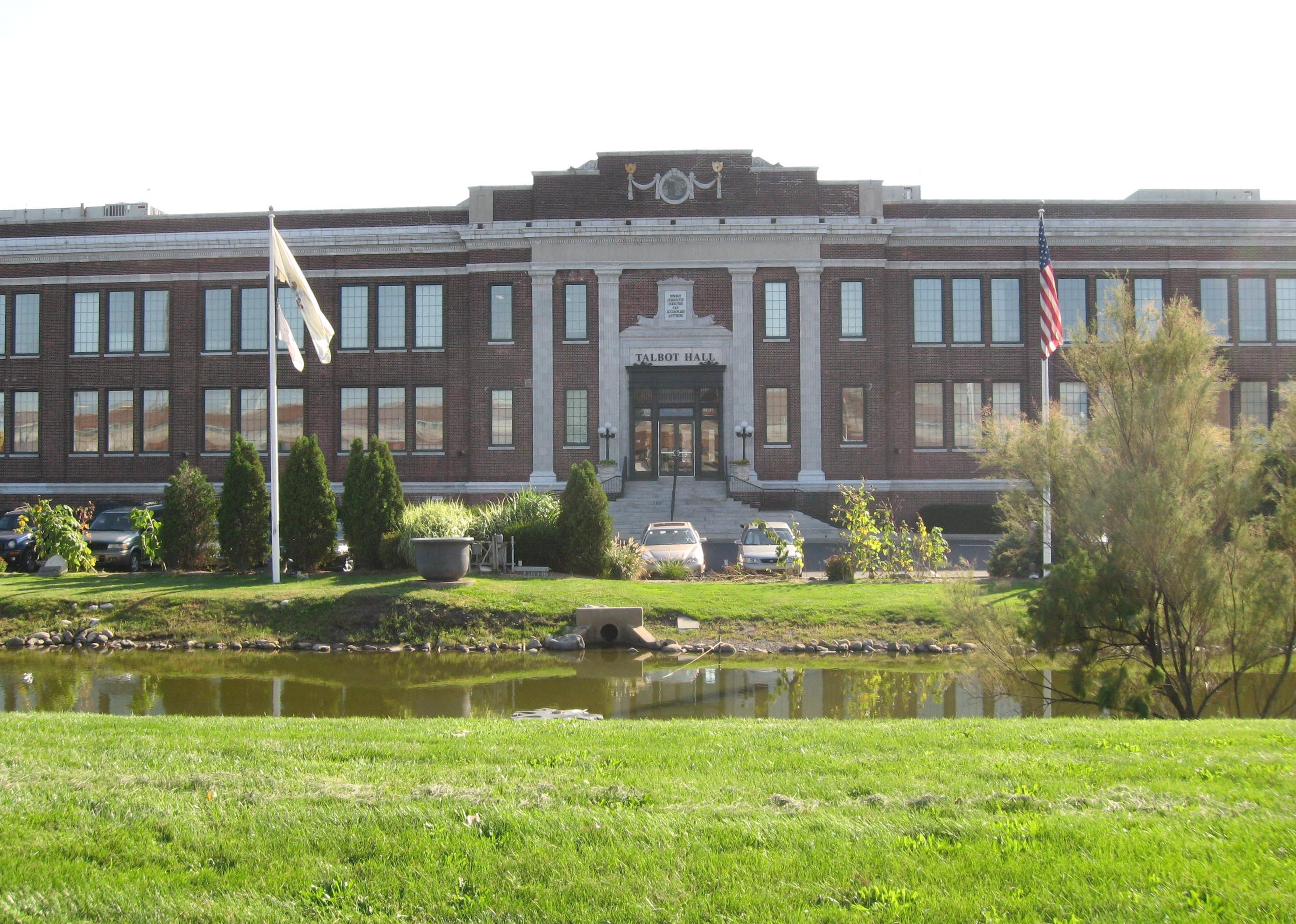 Looking south from Lincoln Highway on Talbot Hall Community Education Center, a unit of New Jersey Department of Corrections on a sunny midday